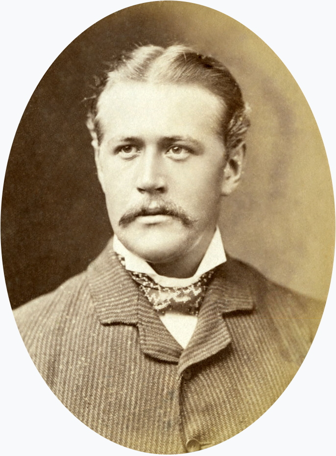 Cricketer Sandford Schultz who played for Cambridge University, Lancashire Cricket Club and the England cricket team and was also a member of The Lord Harris XI cricket team, which toured Australia and New Zealand, circa 1878-1879. Organised by the Melbourne Cricket Club, the team's match against Australia in January 1879 was retrospectively given Test match status, making it the third Test match ever, though it was not part of The Ashes which began in 1882.